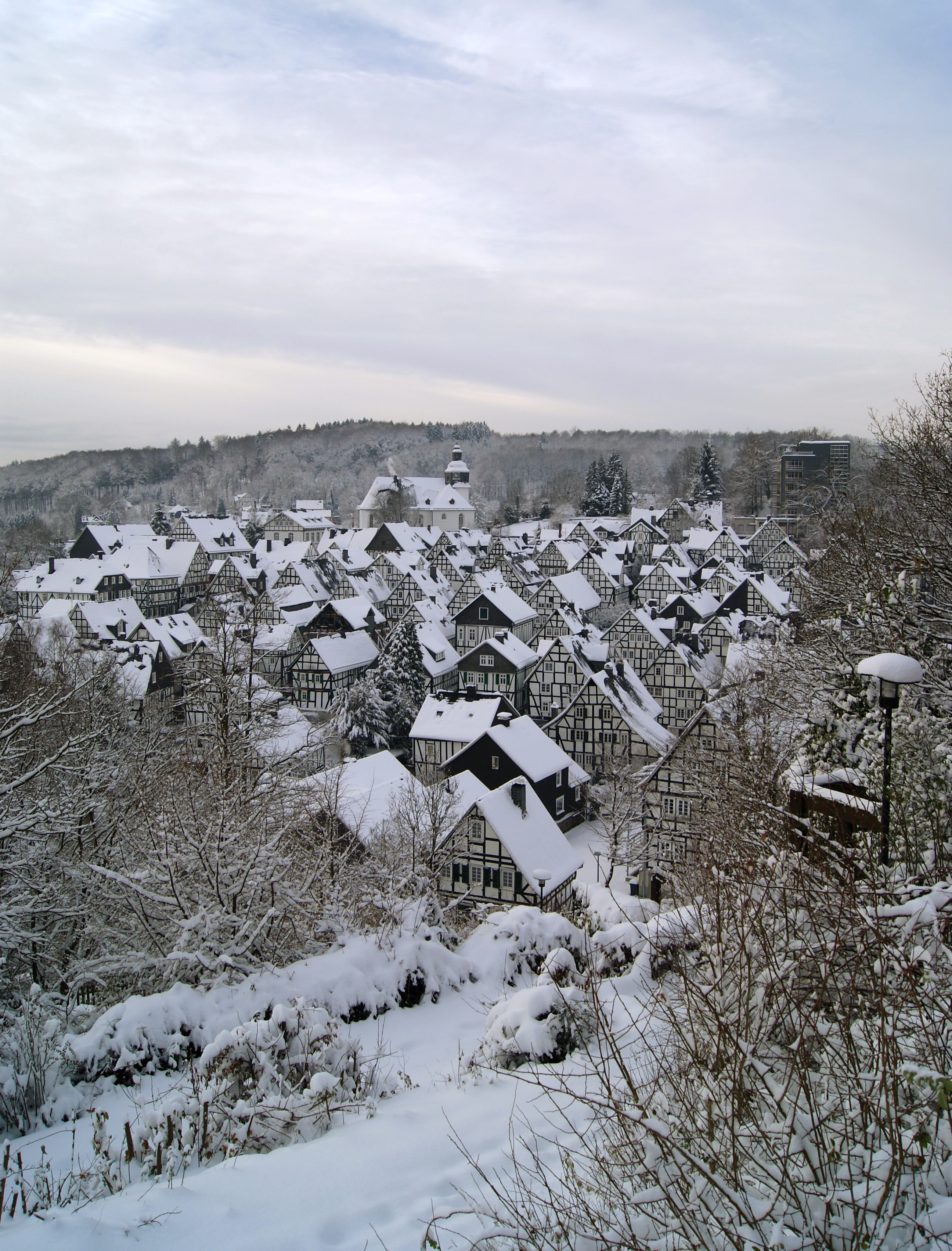 Freudenberg (North Rhine-Westphalia, Germany).